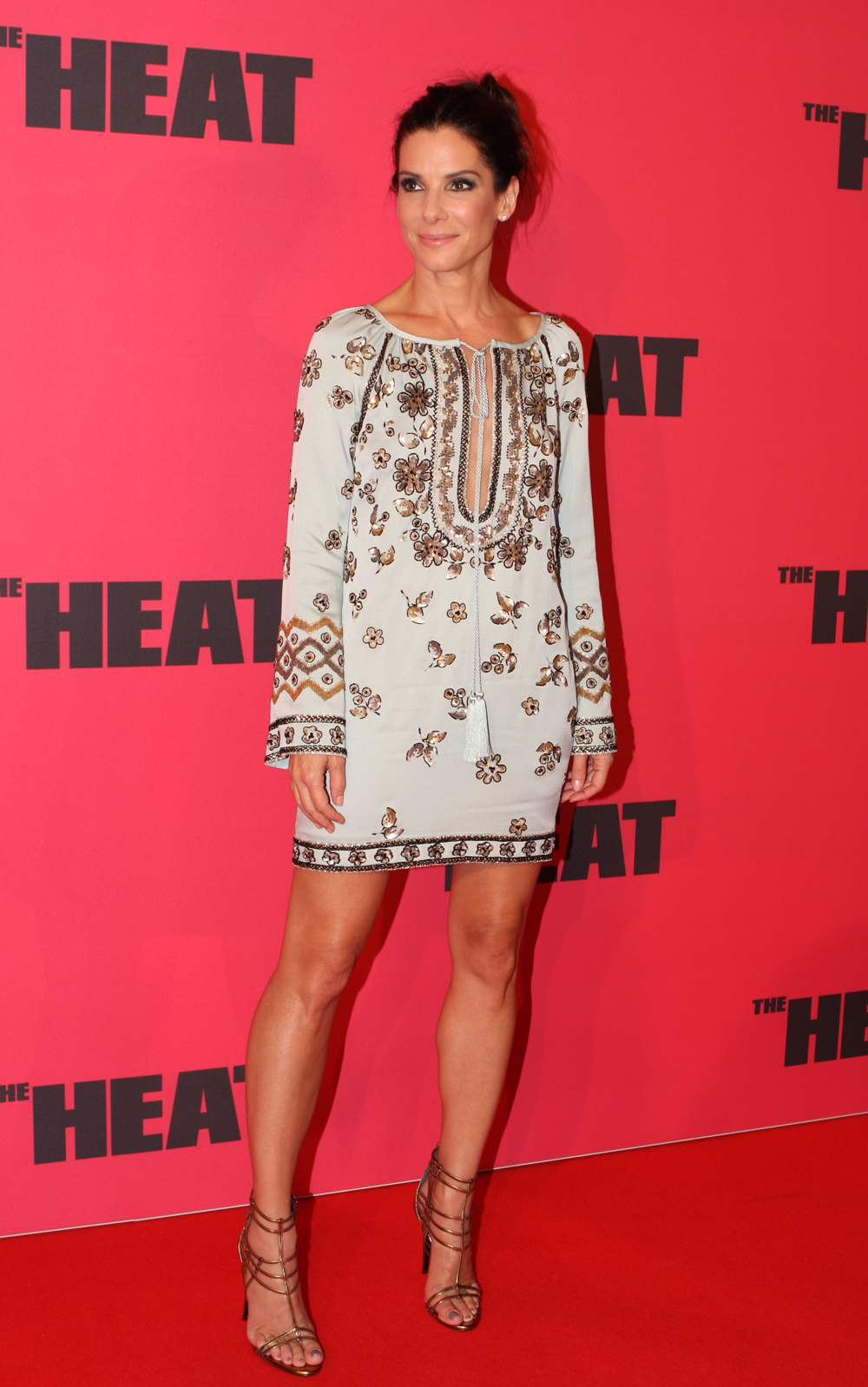 The Heat red carpet movie premiere in Sydney, Australia with Sandra Bullock - 2nd July 2013.